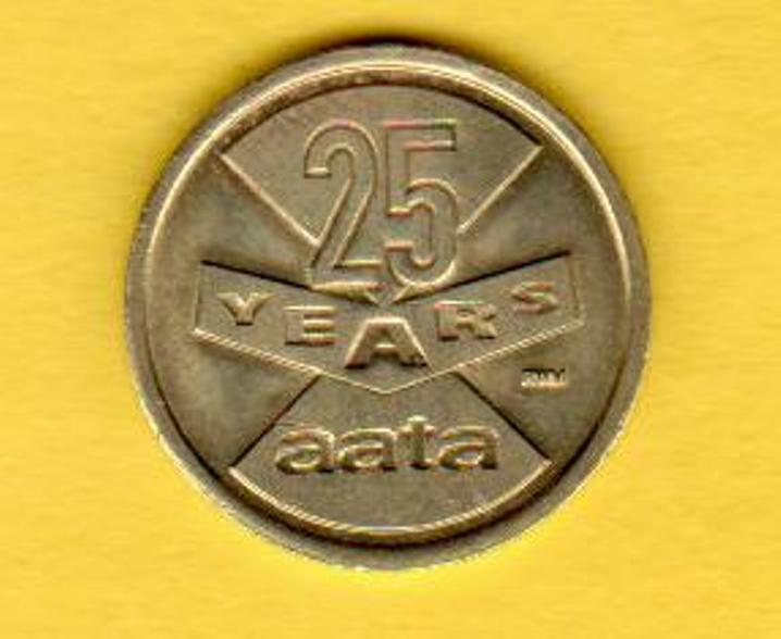 Ann Arbor Transportation Authority 25th anniversary token.